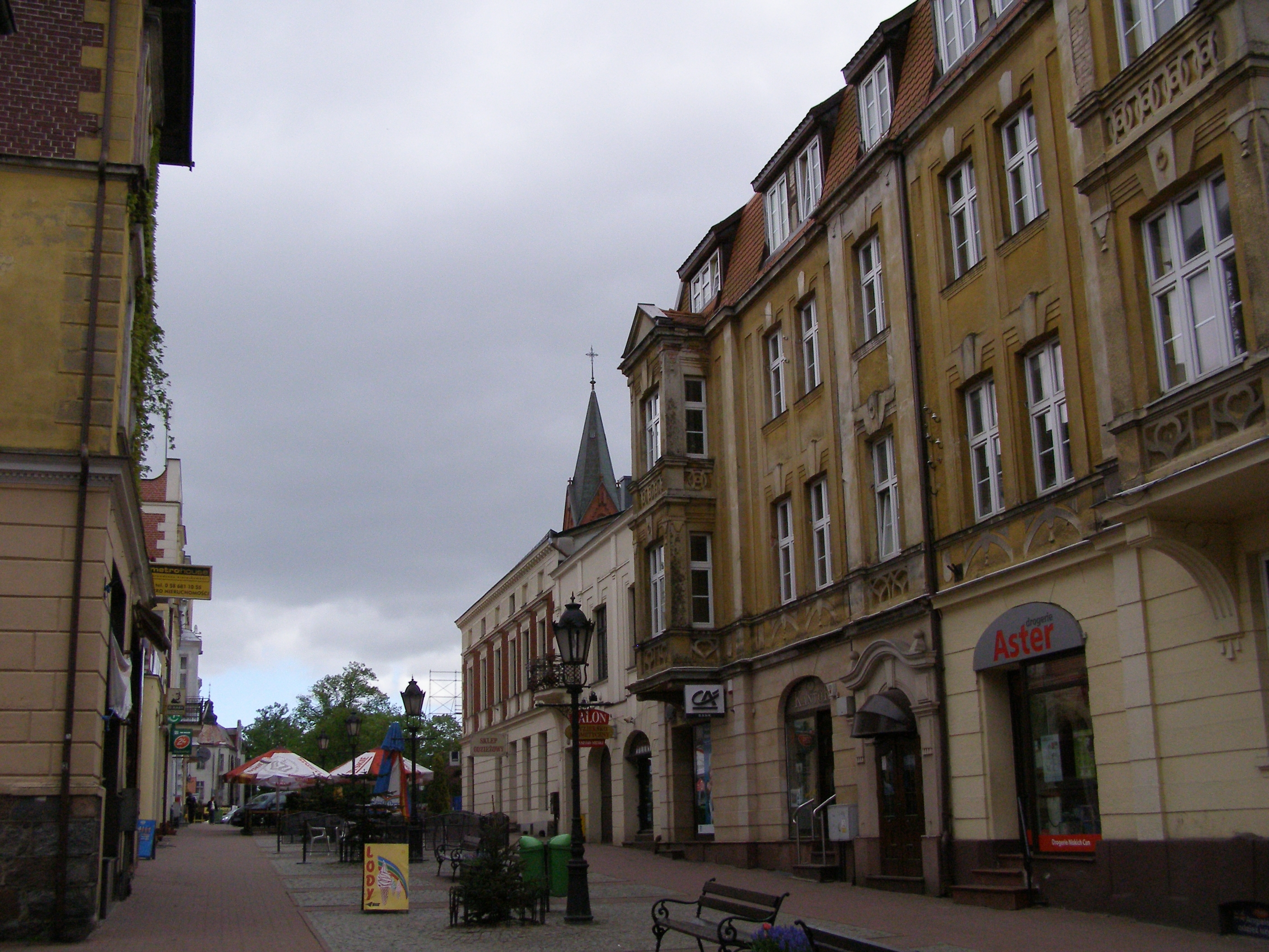 Kartuzy - pedestrian zone of Dworcowa str.